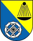 Coat of Arms of Balge